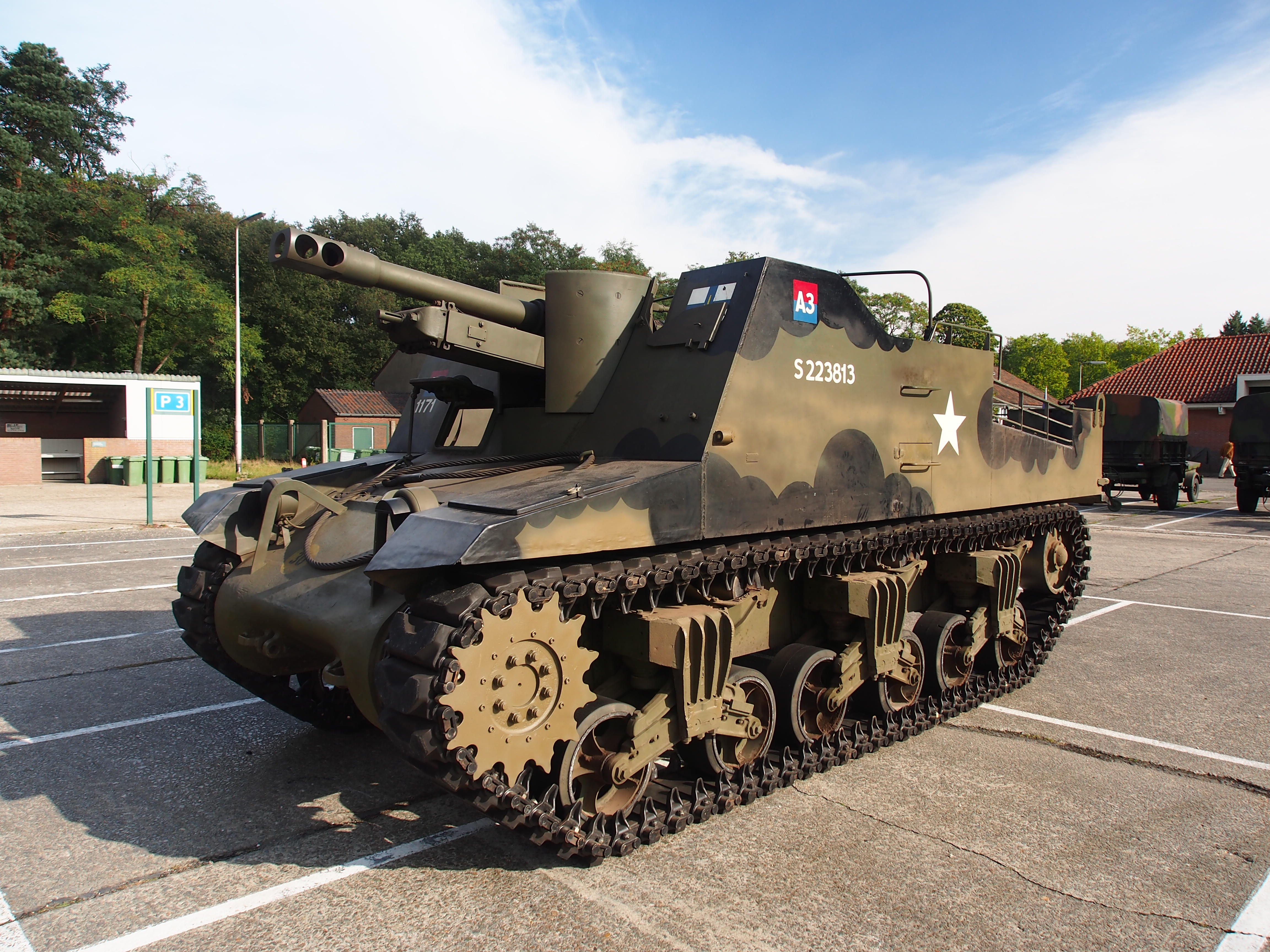 Sexton 25pdr S223813 at the Cavalry museum on the "Friends of the museum day"